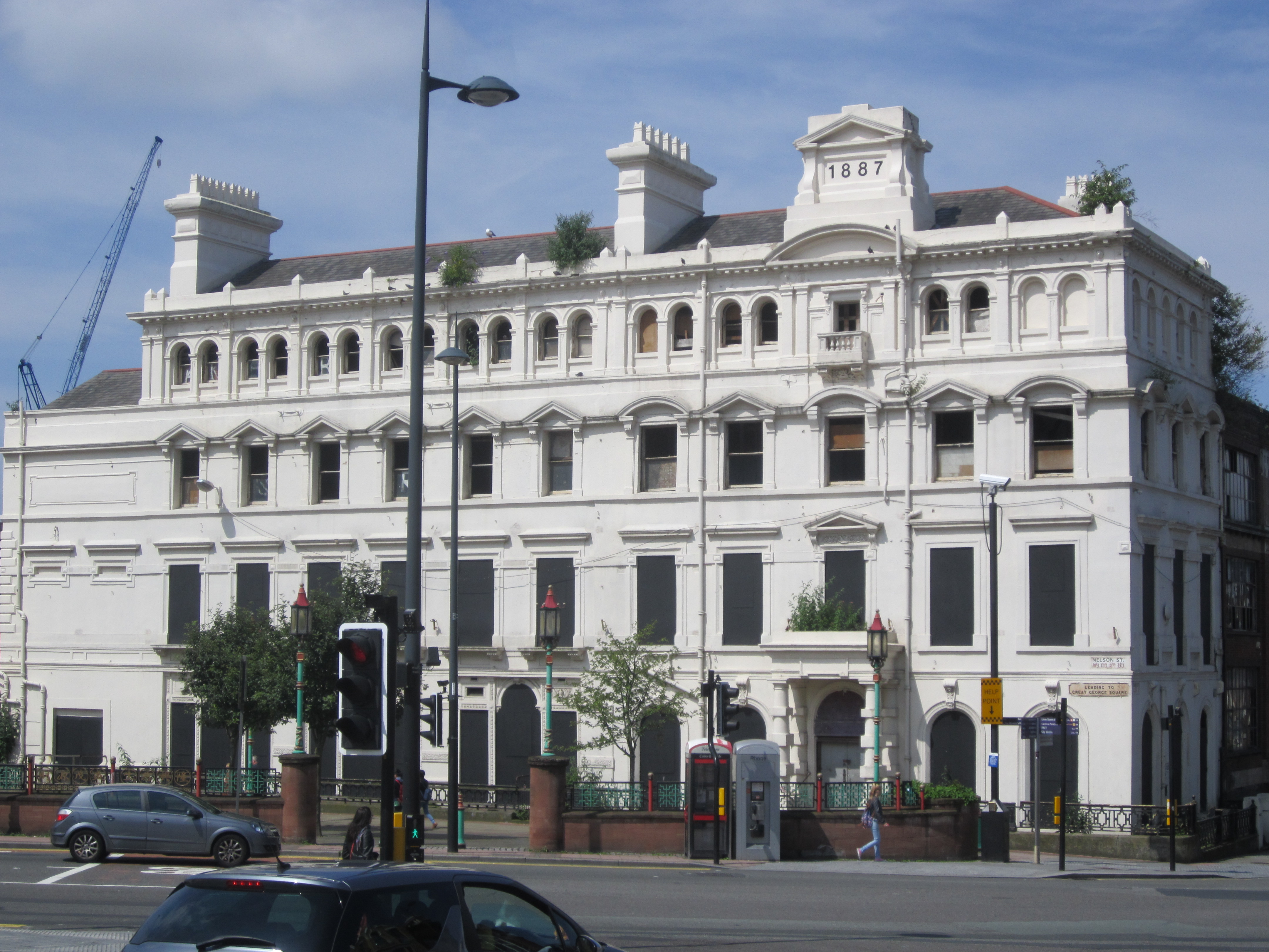 Building on the corner of Nelson Street and Duke Street, Liverpool, England.